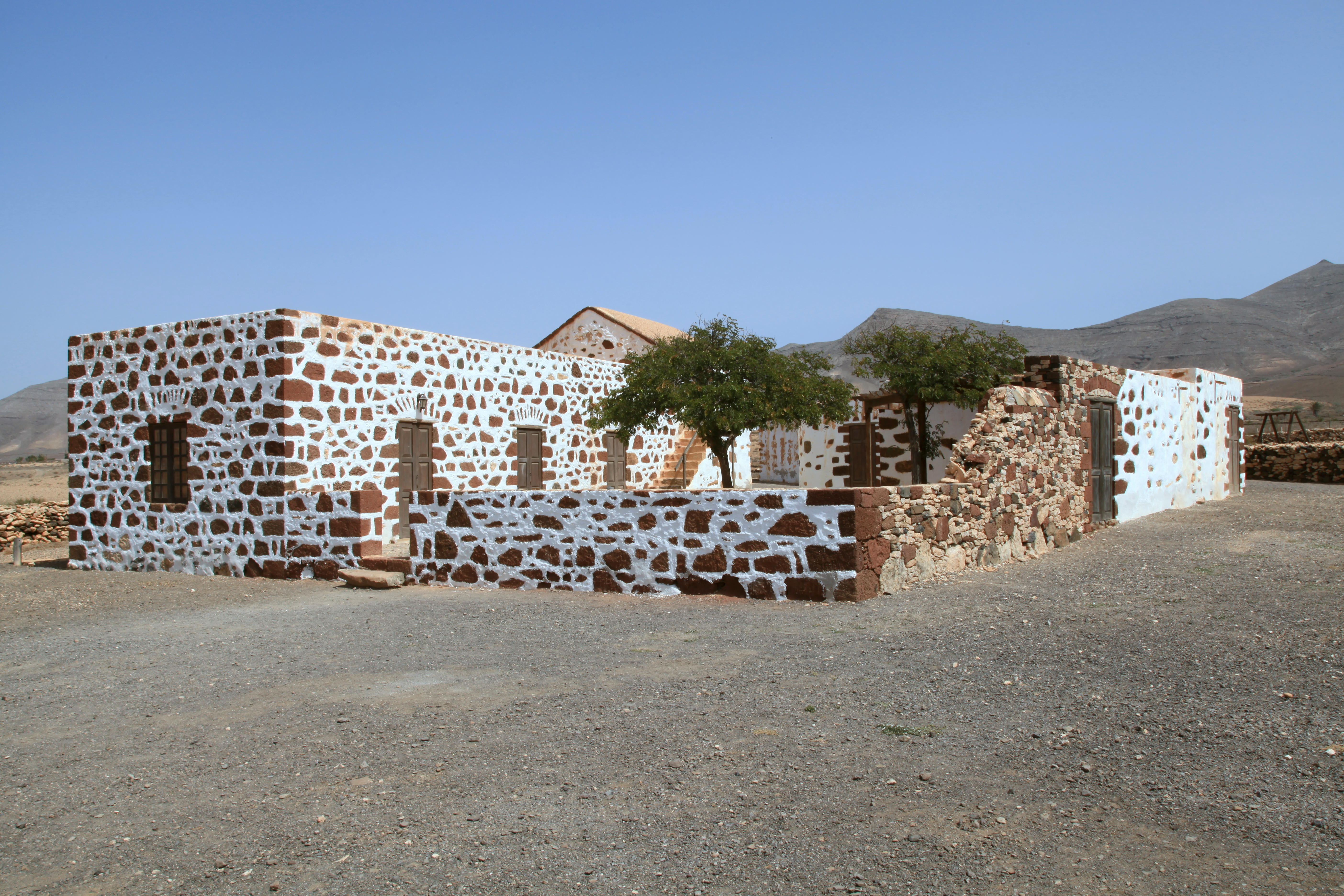 Ecomuseo La Alcogida at Aldea Tefia, FV-207 in Tefia, Puerto del Rosario, Fuerteventura, Canary Islands